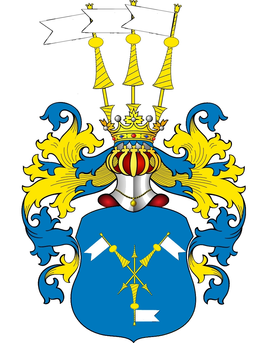 CoA Wellisch